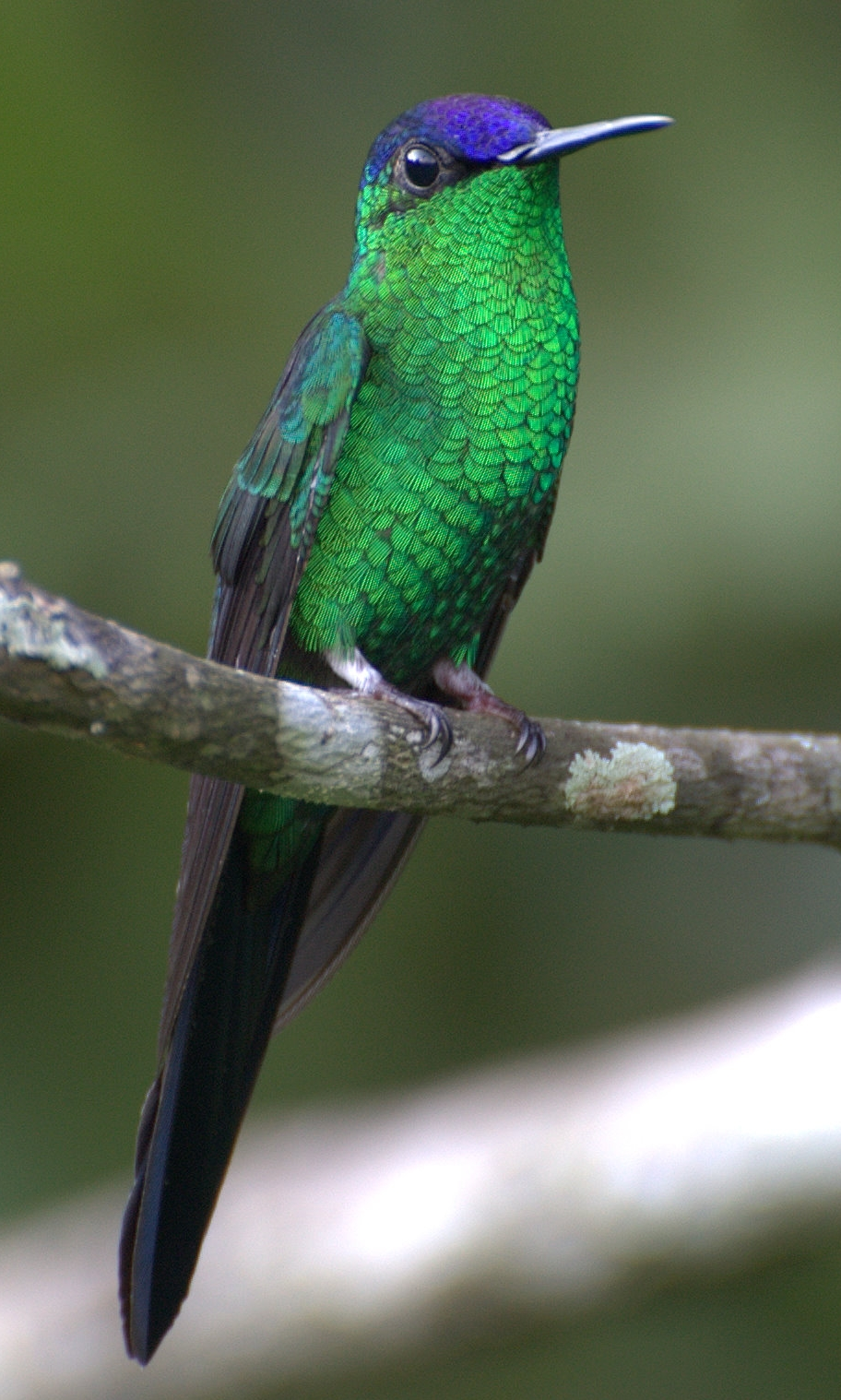 Picture of a Thalurania glaucopis. Chácara Antonio Wuo, Mogi das Cruzes-SP